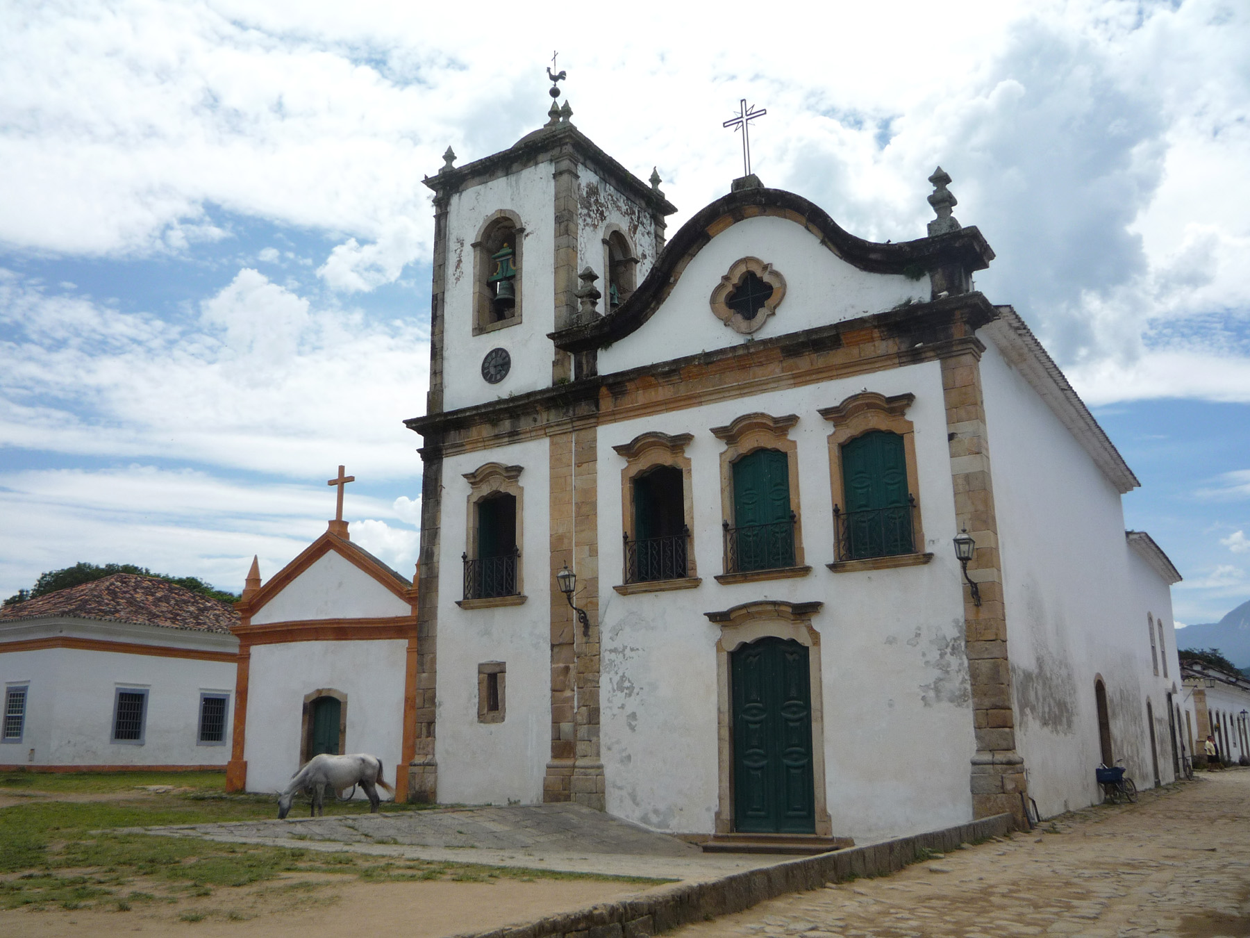 Santa Rita Church in Paraty, Brasil